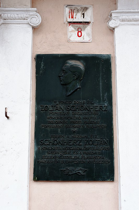 Blade in memorial to Zoltan Schoenherz in Kosice (Gorkeha-Street)/Slovakia